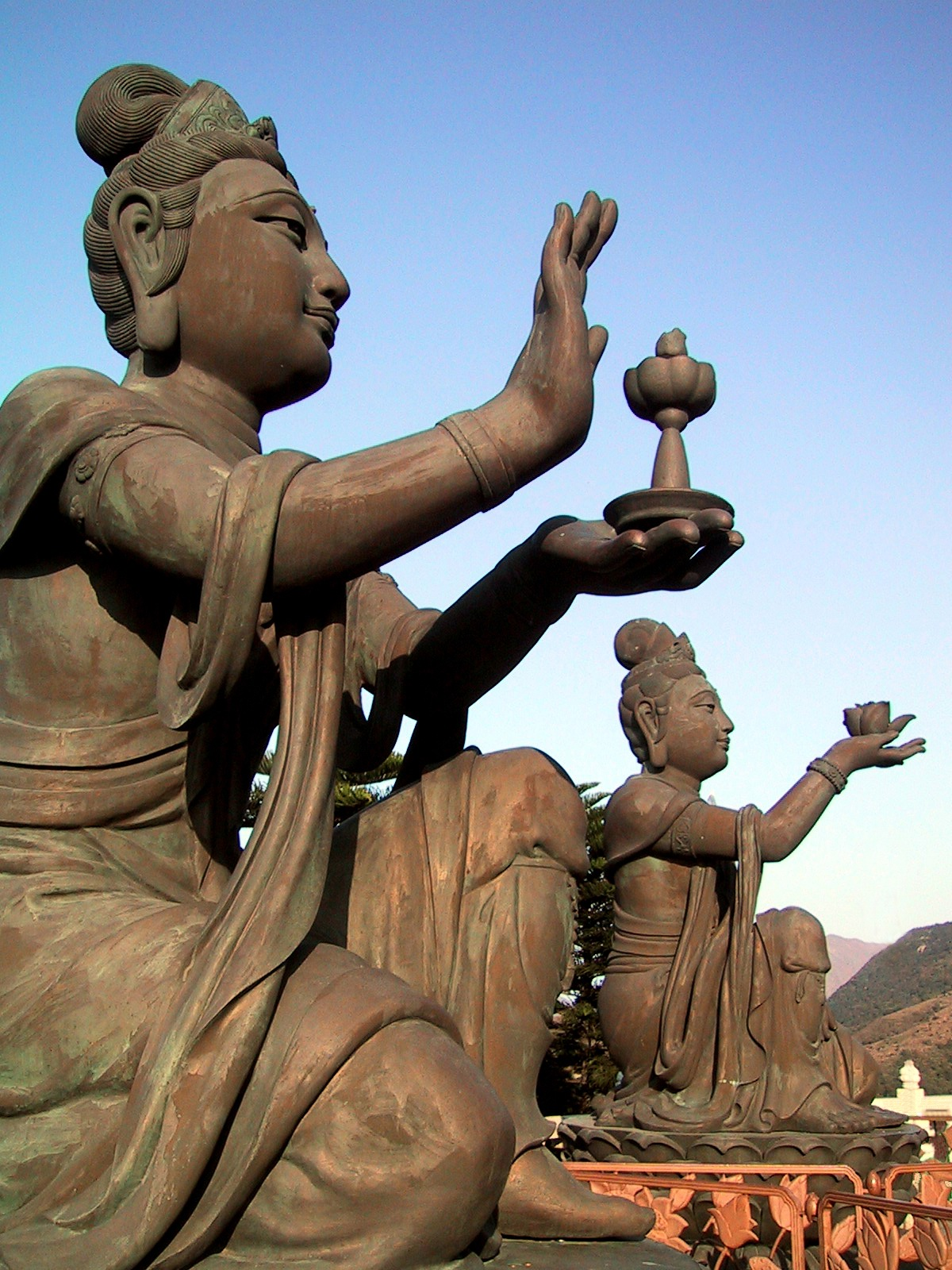 Buddhistic Statues praising the big Buddha (Tian Tan Buddha) on Lantau (Hong Kong).